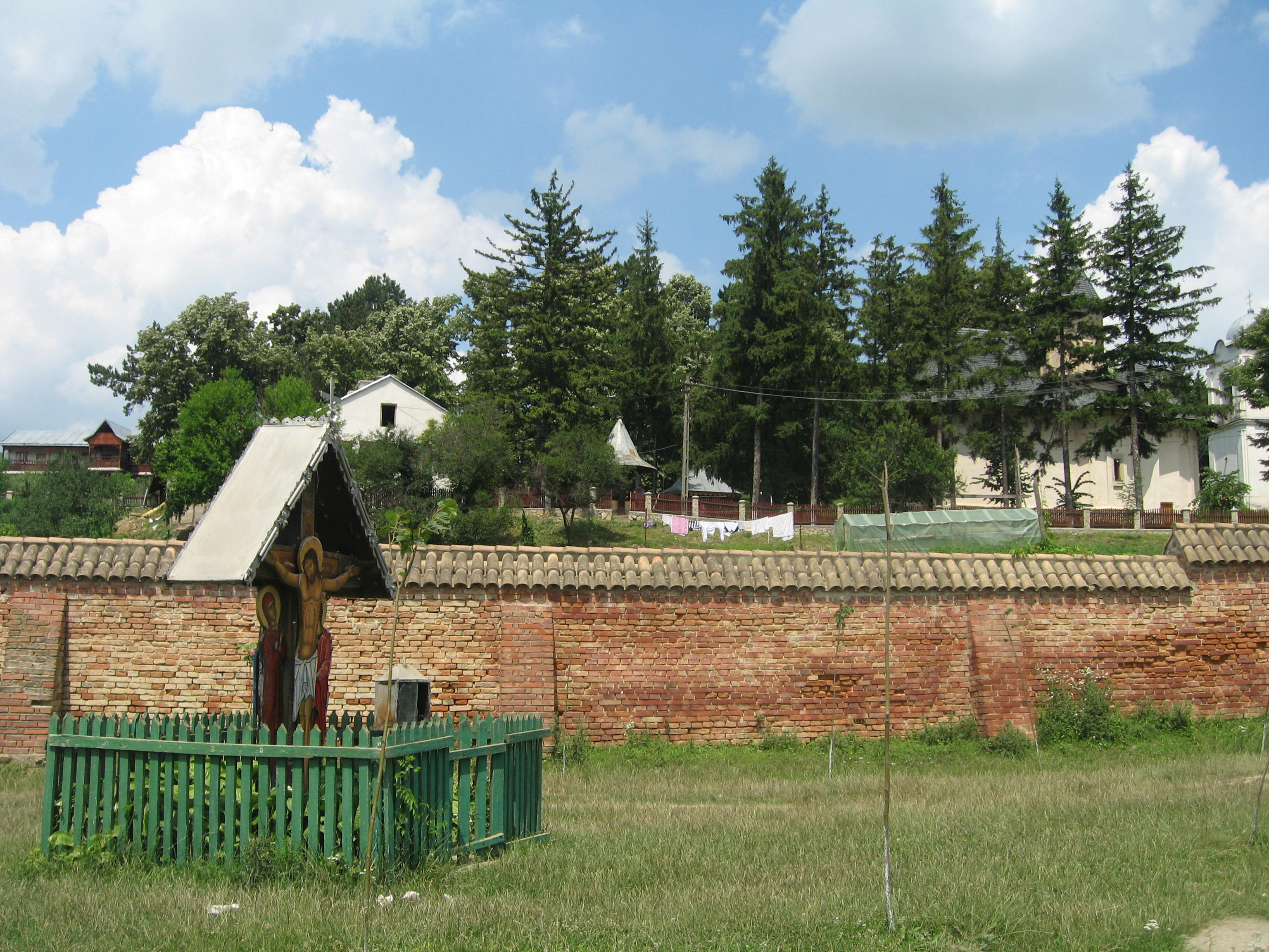 Ziduri 07